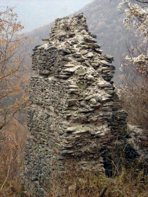 Part of the defensive tower of the Urvich fortress, near Sofia